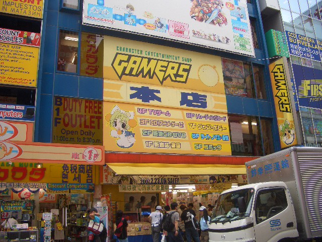 Gamers in the Akihabara